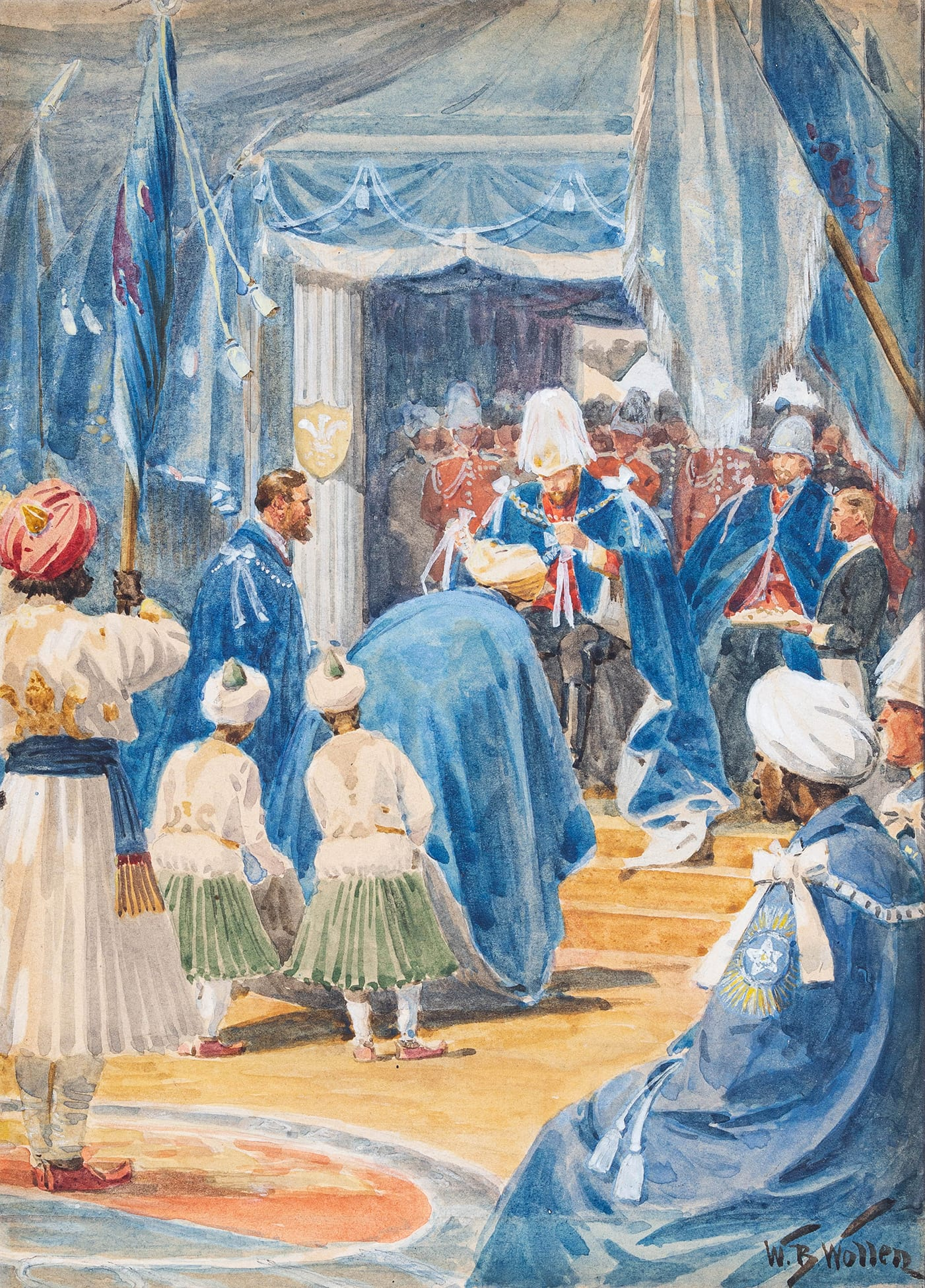 Offered for sale by Abbott and Holder in January 2020 when it was described as "WOLLEN William Barnes (1857-1936) George V investing an Indian Prince with The Star of India, 14th December, 1911. Watercolour and gouache. Signed. Incorrectly inscribed beneath the mount ‘Investiture by Prince of Wales of Star of India’. The ‘Narrative of the Visit to India by…George V… and of the Coronation Durbar’ (publ.1912) by the Royal Archivist Sir John Fortescue identifies (p.178) this event. The Investee here wears the Mantle of the Knights Grand Commanders which identifies him as one of 6 figures: Maharaja of Bikaner, Maharao of Kotah, Maharaja of Kapurthala, Asaf Jah, Nizam of Hyderabad, or the Aga Khan III. 7.25x5 inches."